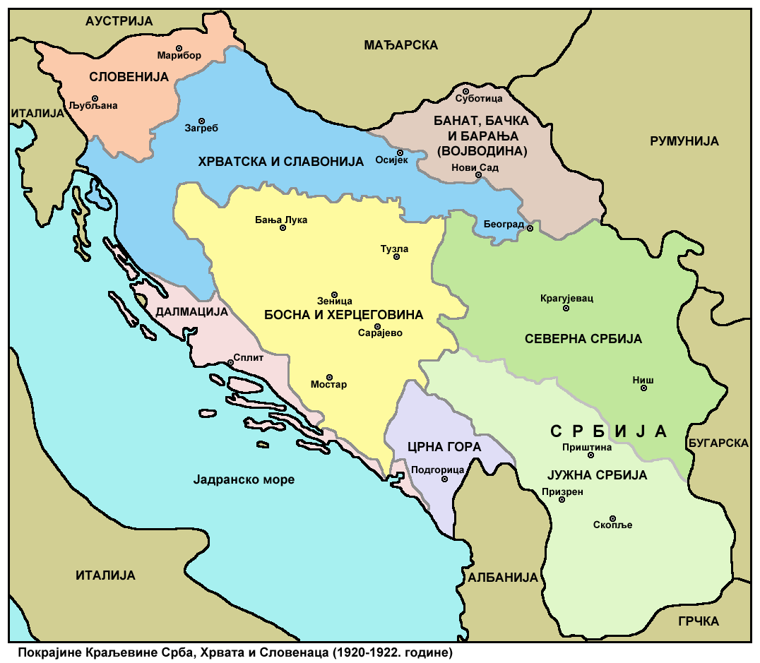 Provinces of the Kingdom of Serbs, Croats and Slovenes (1920-1922).